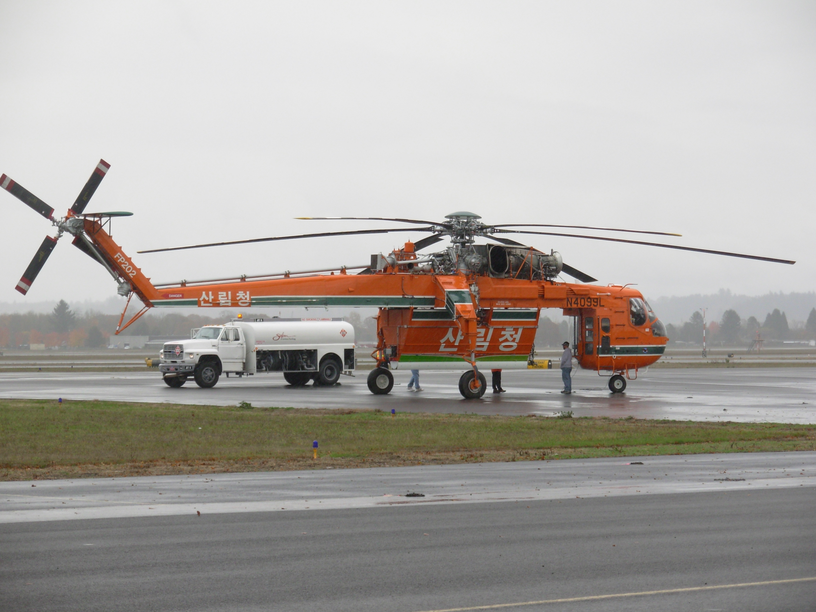 Erickson Air-Crane S-64 FP202, c/n 64-038 (temporary registration N4099L) refuels at McNary Field in Salem, Oregon on November 8, 2006. Aircraft sold to Korea Forest Service